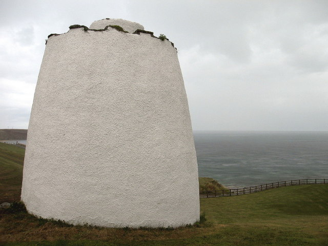 Priory Doocot, Crail. Priory Dovecot lies on the outskirts of Crail and was built for the former nunnery which stood nearby. It is a circular beehive dovecot dating from the 16th century. It was restored in 1962. Pigeons once provided a valuable supply of fresh meat, especially in winter, and special structures were built by privileged landlords and landed institutions to accommodate the birds.